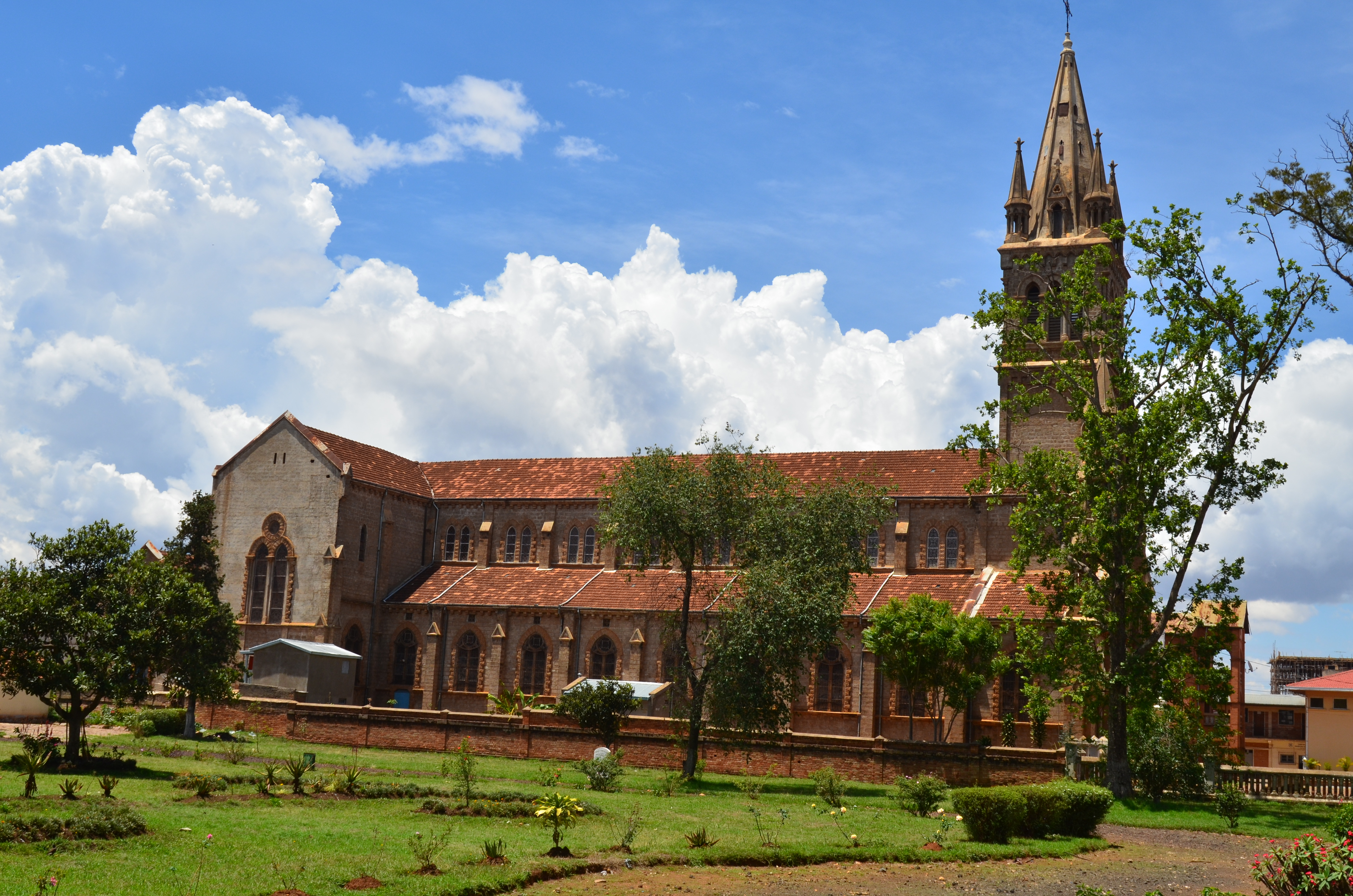 Side view from Antsirabe's cathedral